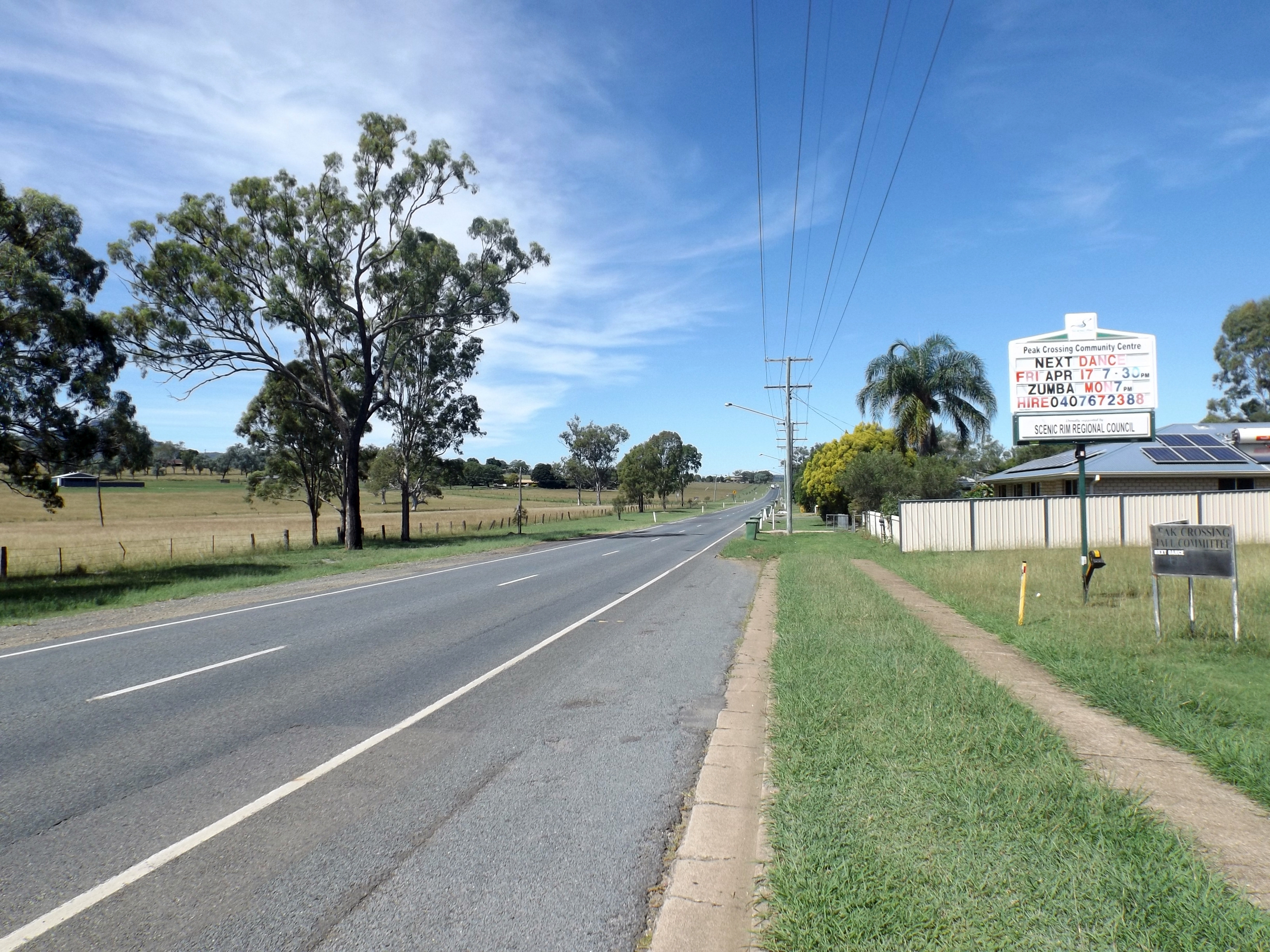 Looking south along Ipswich Boonah Road at Peak Crossing, Scenic Rim Region, Queensland, Australia.